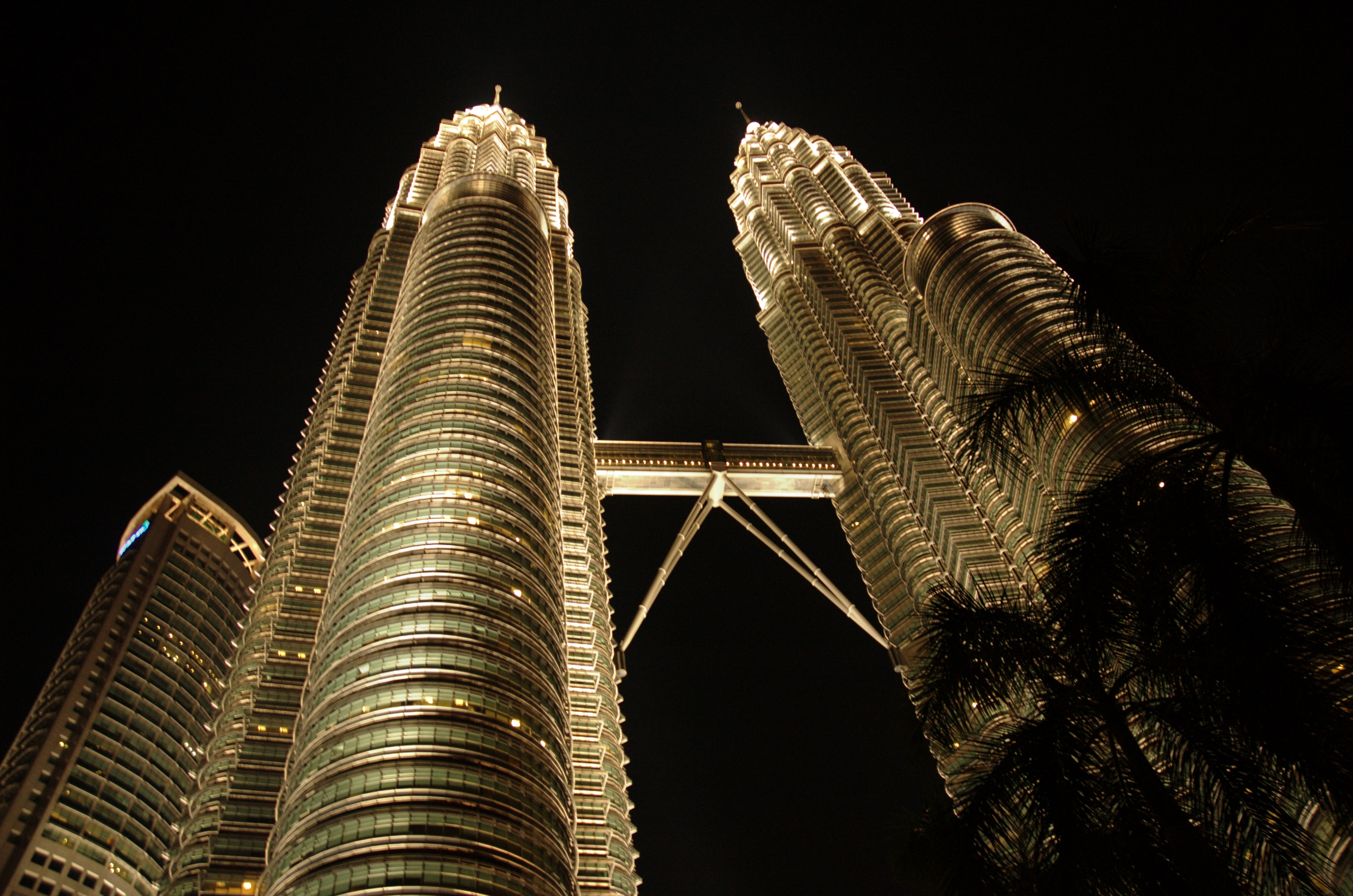 Petronas Twin Towers in Kuala Lumpur